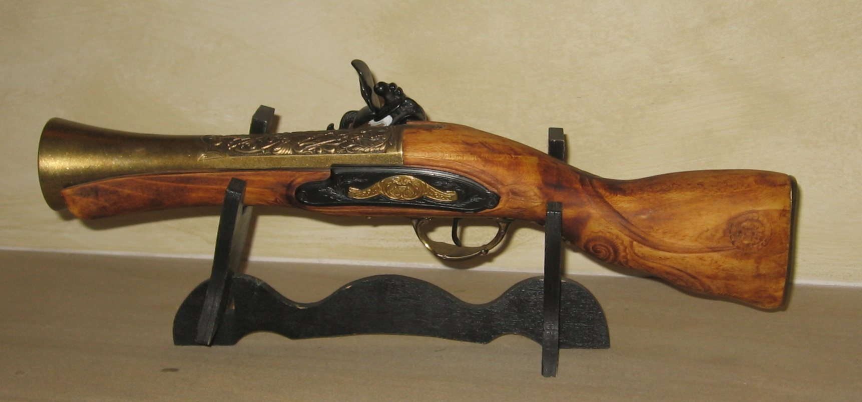 replica of historical blunderbuss